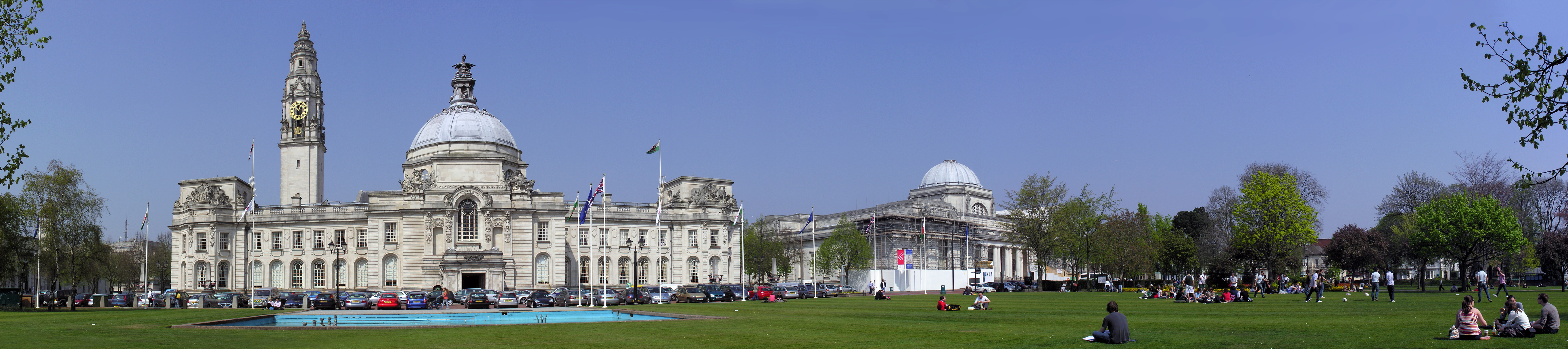 A panoramic view of Cardiff City Hall (left) and the National Museum and Gallery of Wales (right). City Hall is fronted by a large grassy area which is popular with students on sunny spring and summer afternoons, while the Museum faces onto Gorsedd Gardens which is colourfully planted with tulips. This area makes up the southern end of Cathays Park, which comprises two other gardens, Alexandra Gardens and Friary Gardens. Cathays Park is also home to Cardiff Crown Court, several of the major Cardiff University buildings, the central administrative departments of the National Assembly Government and the central police station, all of which lie to the north of City Hall.